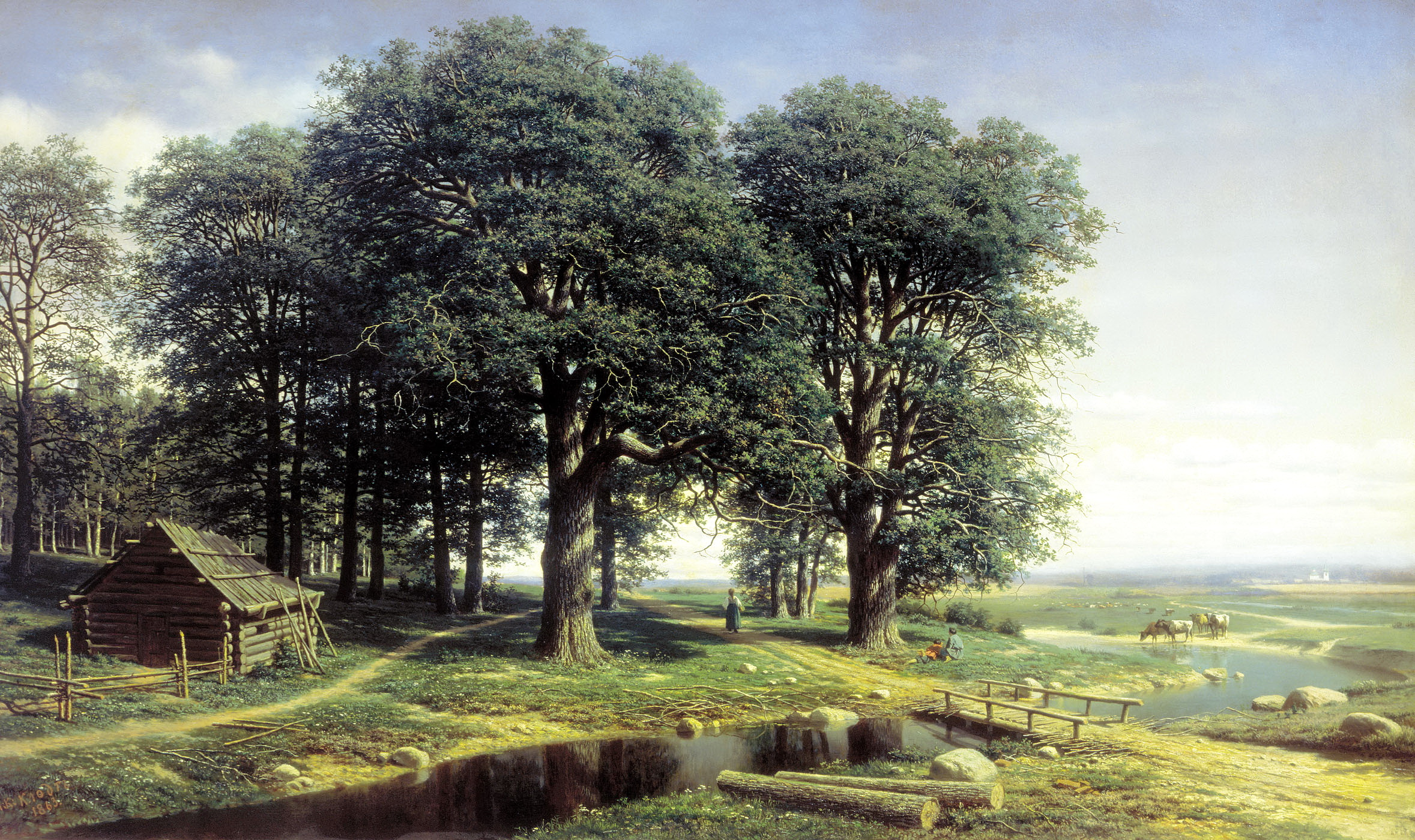 Mikhail Clodt (1832–1902) Oak Grove